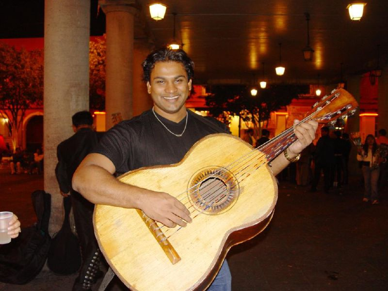 A bar patron borrowing a mariachi's guitarrón in Mexico City.